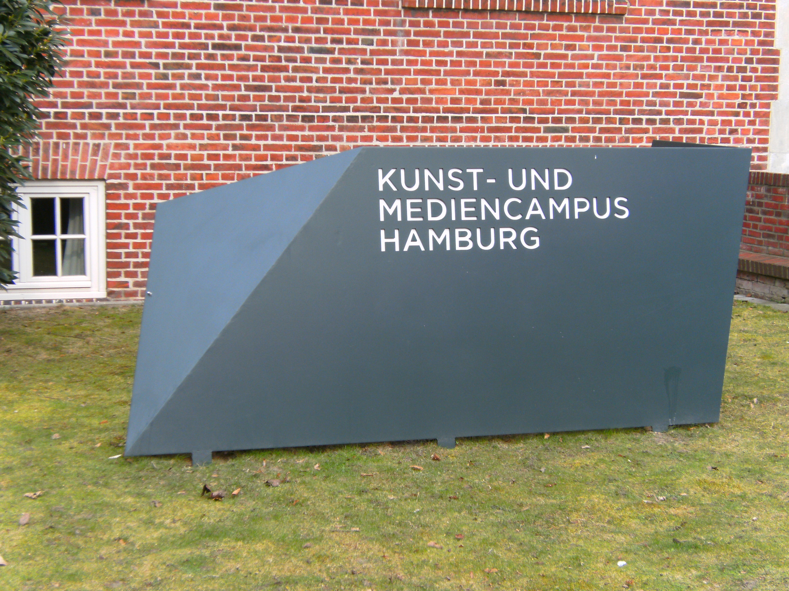 Indication of Kunst- und Mediencampus (art and media) in the street Finkenau in Hamburg.